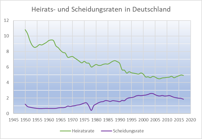 Marriages and divorces per 1.000 citizens in Germany (with German Democratic Republic); Data sources